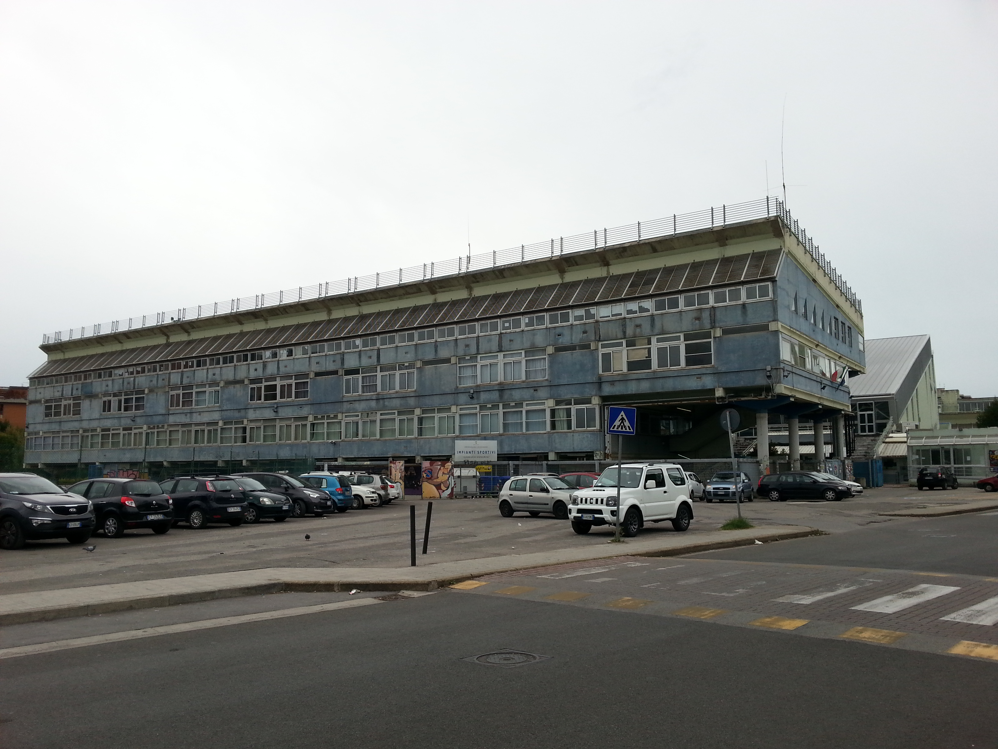 Marchesi complex, school building in Pisa, Italy